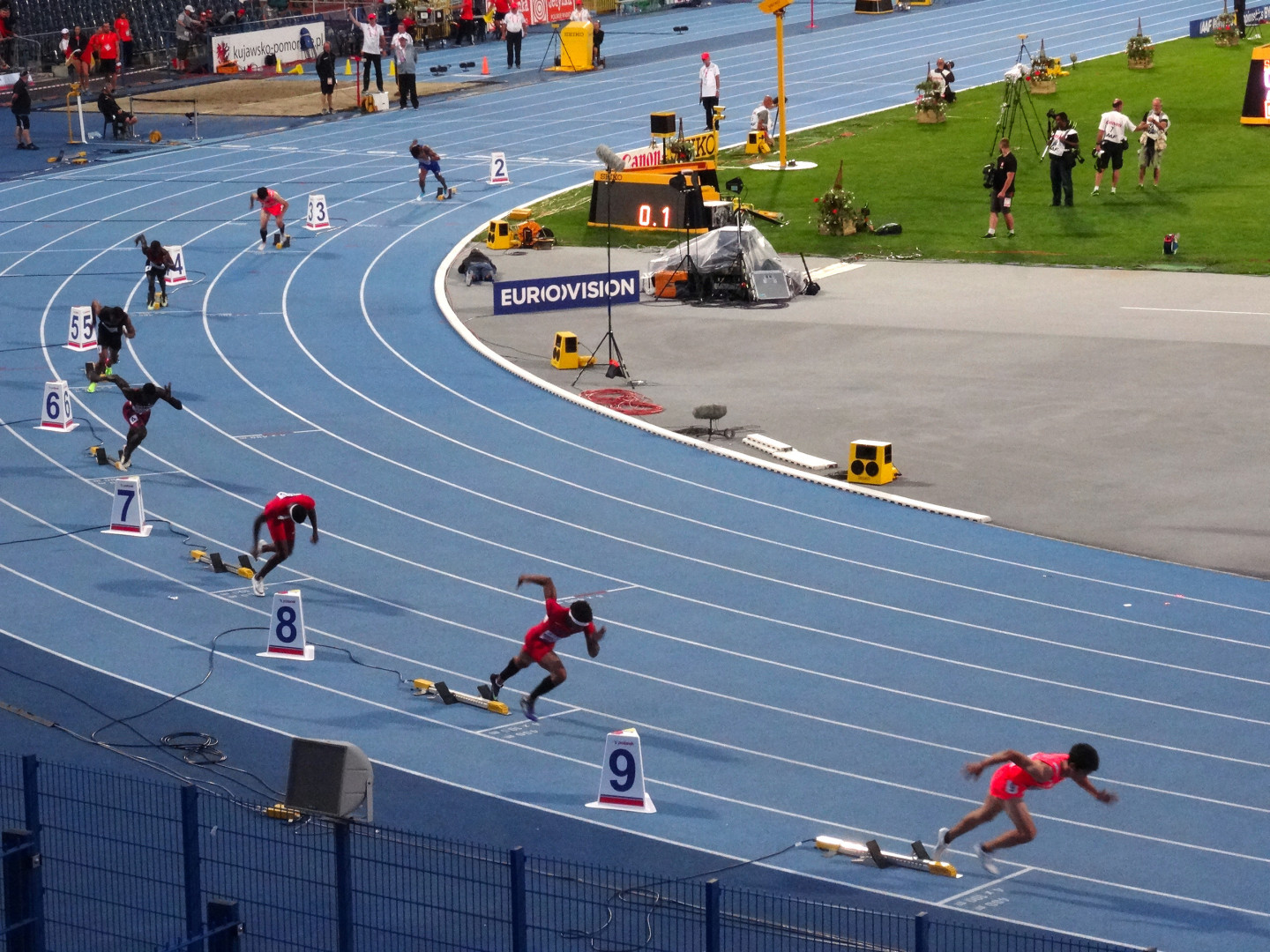 2016 IAAF World U20 Championships in Bydgoszcz, 400m men final